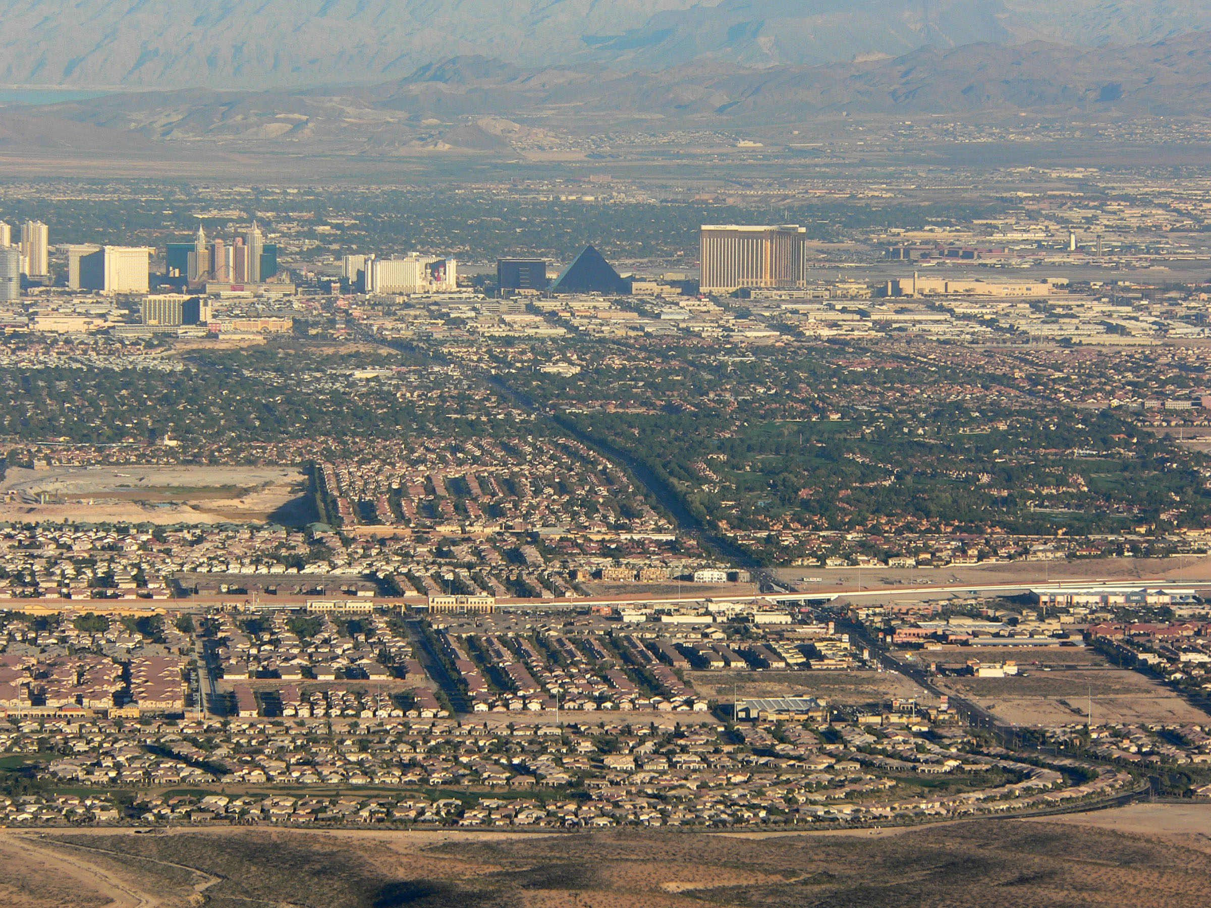 Sunset view of Tropicana Avenue from Blue Diamond Hill, Las Vegas, Nevada